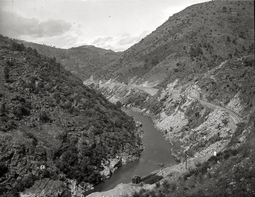 Tua railway near Gavião; São Lourenço halt. [191?] – [191?]